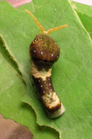 Second-Third Papilio glaucus instar showing osmeterium